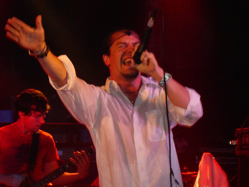 Peeping tom in Milan